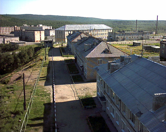 Luostary, Murmansk Oblast, Russia